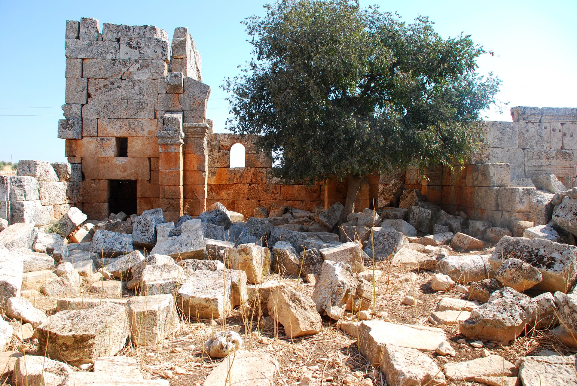 Dar Qita, dead city near Baqirha, Syria. Holy Trinity Church